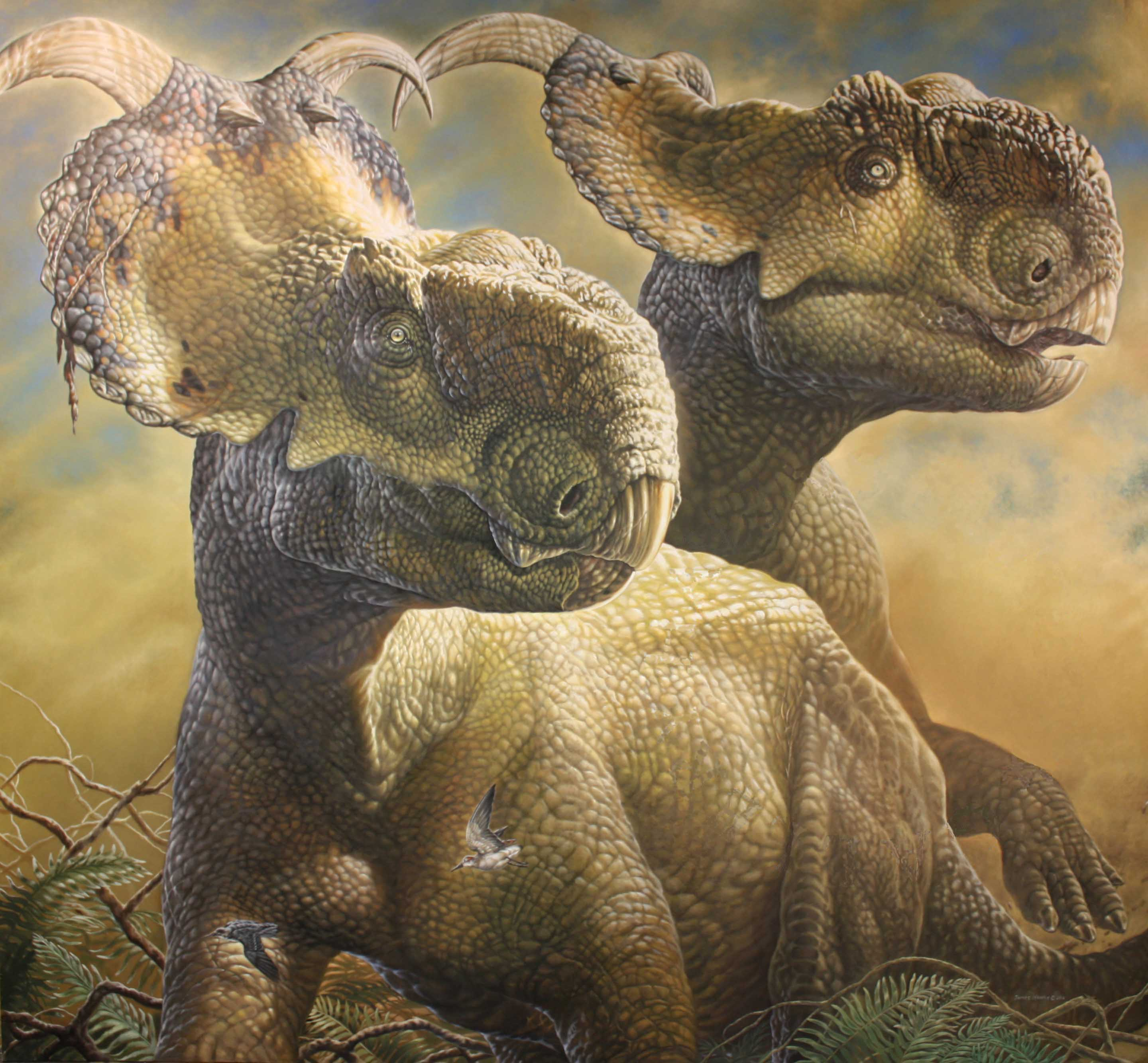 Pachyrhinosaurus pperotorum and Gruipeda vegrandiunis in Alaska[1], by James Havens